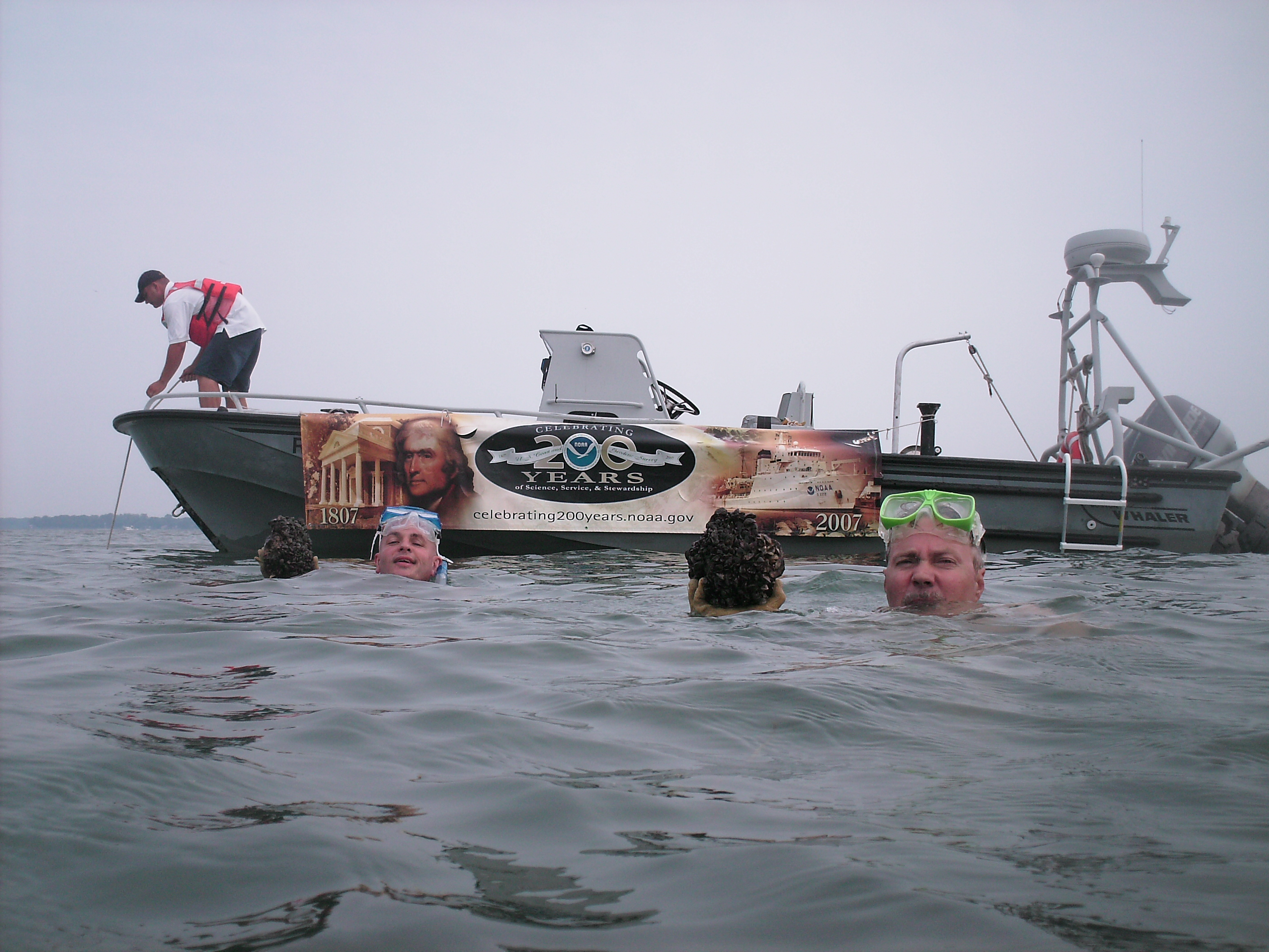 Scientists from NCCOS’ Center for Coastal Monitoring and Assessment, Office of Coast Survey, and NOAA’s Great Lakes Environmental Research Laboratory collect zebra mussels attached to rocks in Lake Erie for NCCOS’ Mussel Watch Program. Since 1986, NOAA’s Mussel Watch has consistently studied and monitored 300 sites around the country for over 100 organic and inorganic pollutants in sediments, oysters, and mussels. NOAA relies on this fundamental data set at a national scale to report the success of declining contaminant levels and to call attention to new contamination problems. The collection site in this picture is one of the first Mussel Watch sites established in 1992 in the Great Lakes near Peach Orchard Point South Bass Island. Pictured (from left): Cliff Cosgrove and Dr. Gunnar Lauenstein with Andrew Yagiela on the boat.